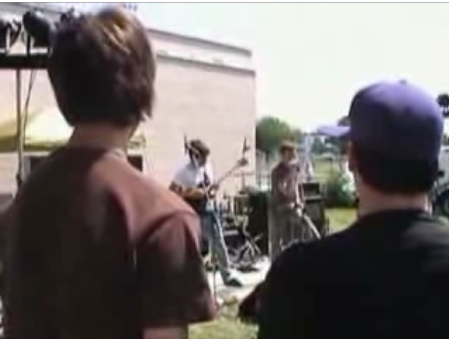 The band Protest the Hero playing outside the Halifax Pavilion